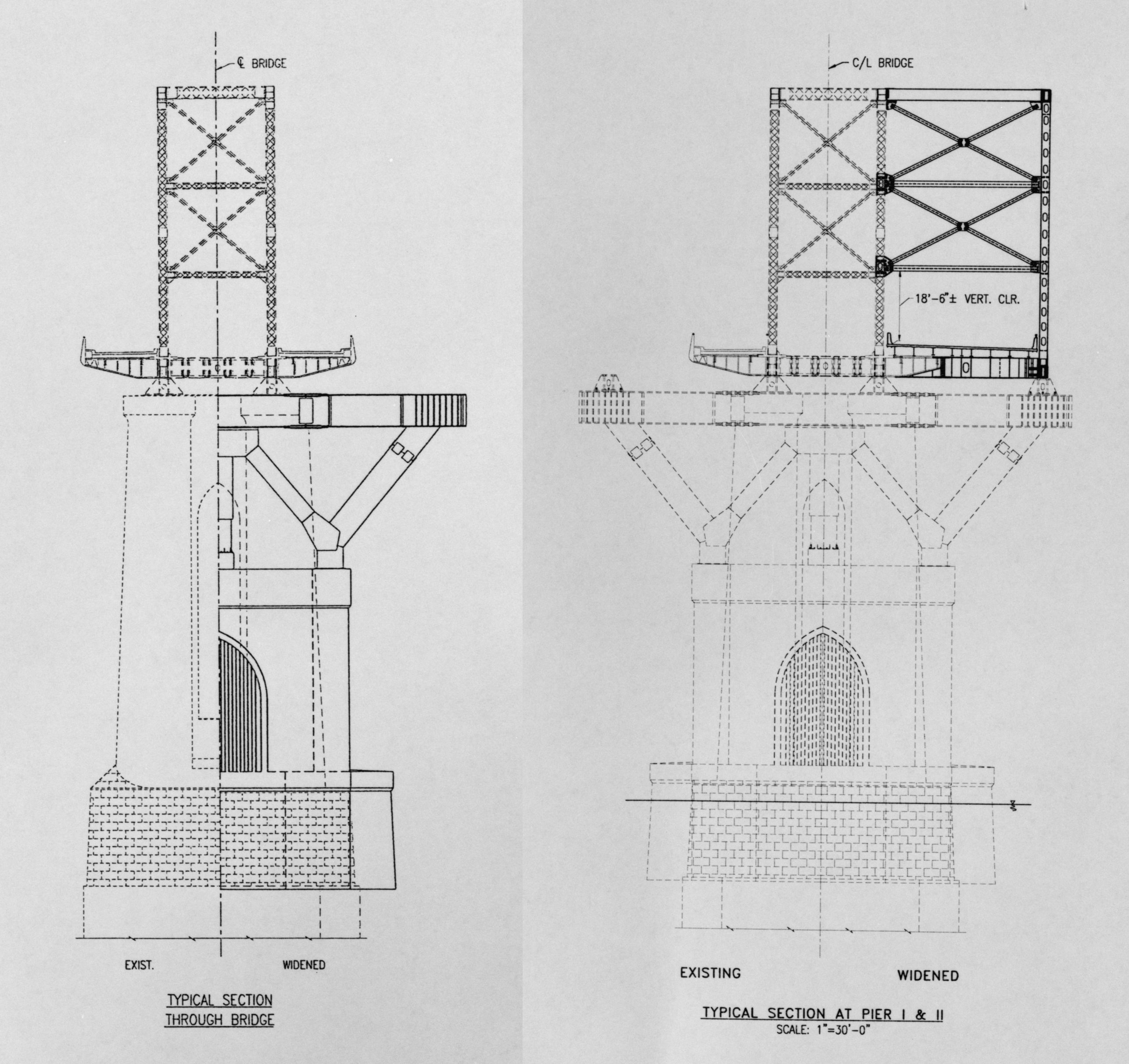 Drawings of Pear and Truss Widening of Huey P. Long Bridge (Jefferson Parish)